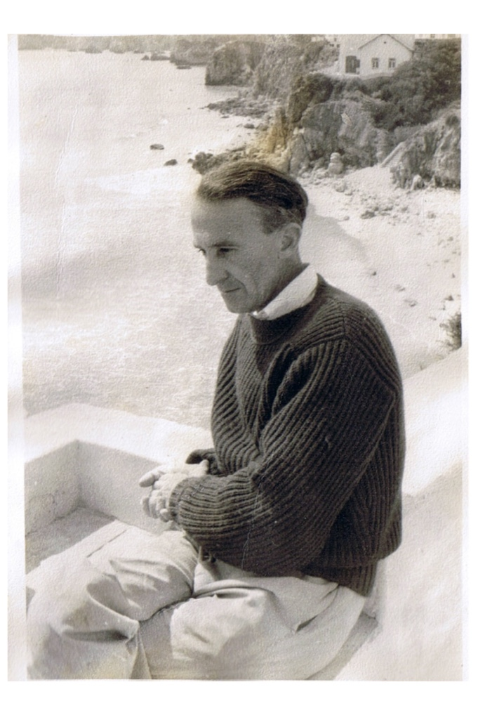 Gabriel Fielding circa 1959